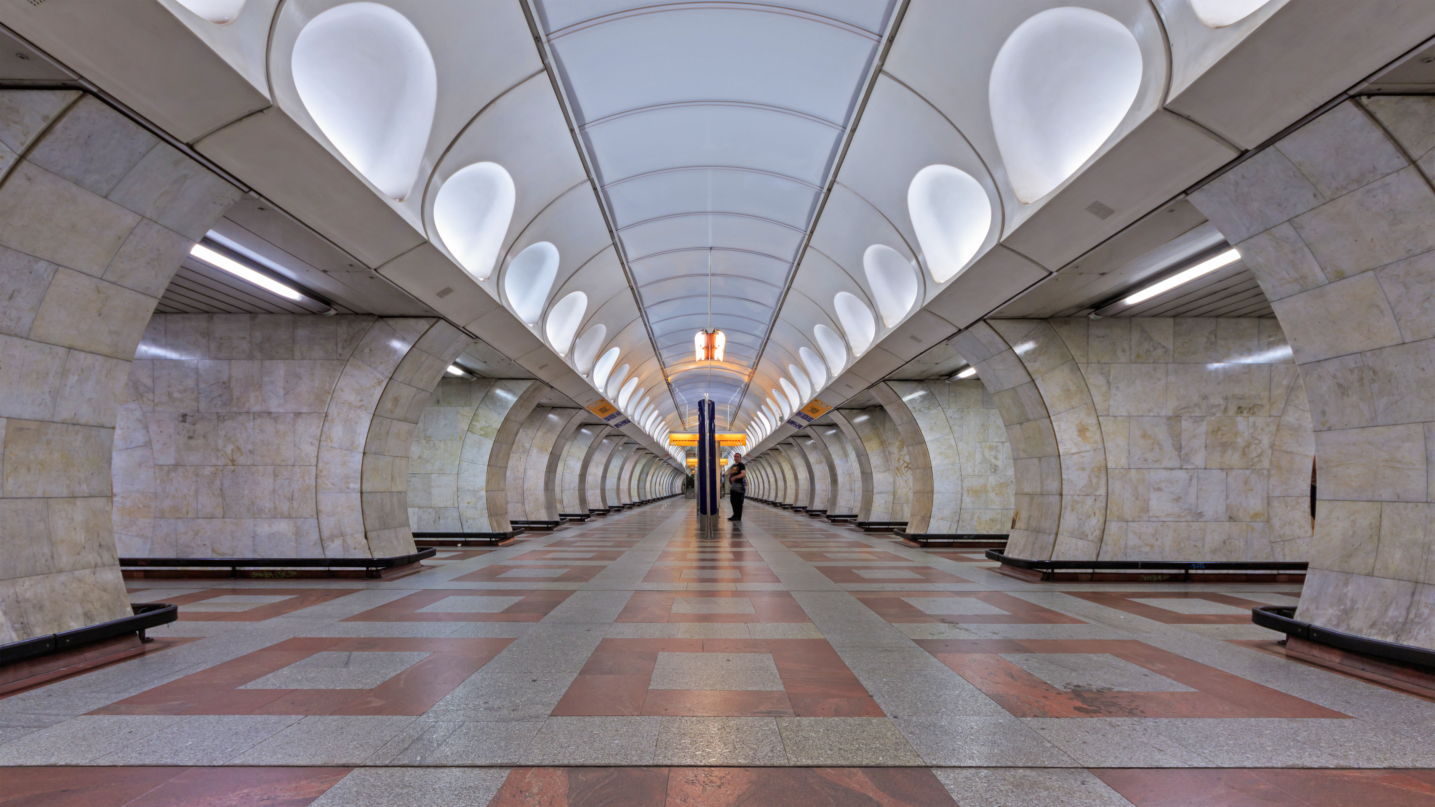 Anděl metro station in Prague (Czech Republic)